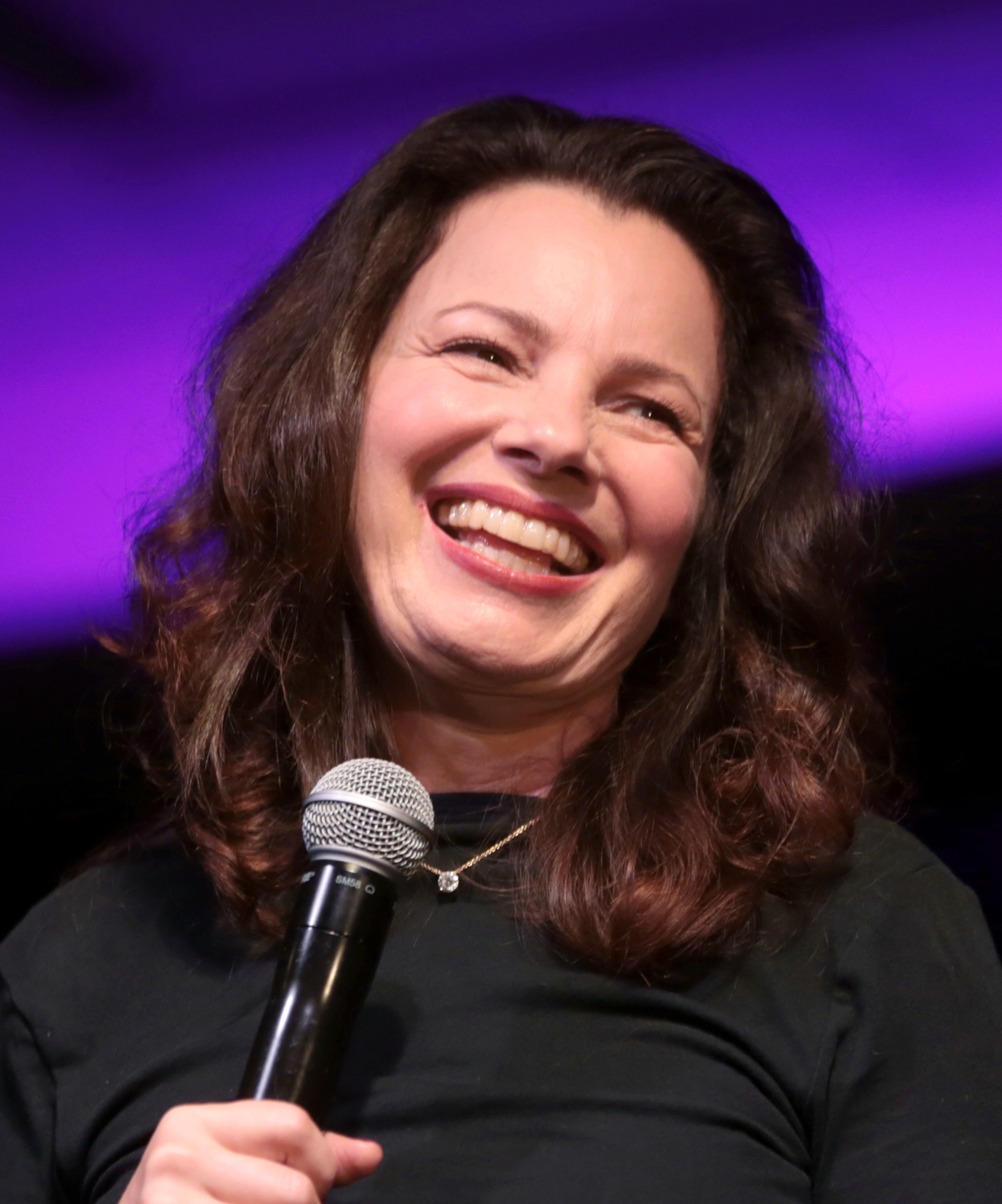 Fran Drescher speaking with attendees at the 2018 Arizona Ultimate Women's Expo at the Phoenix Convention Center in Phoenix, Arizona.